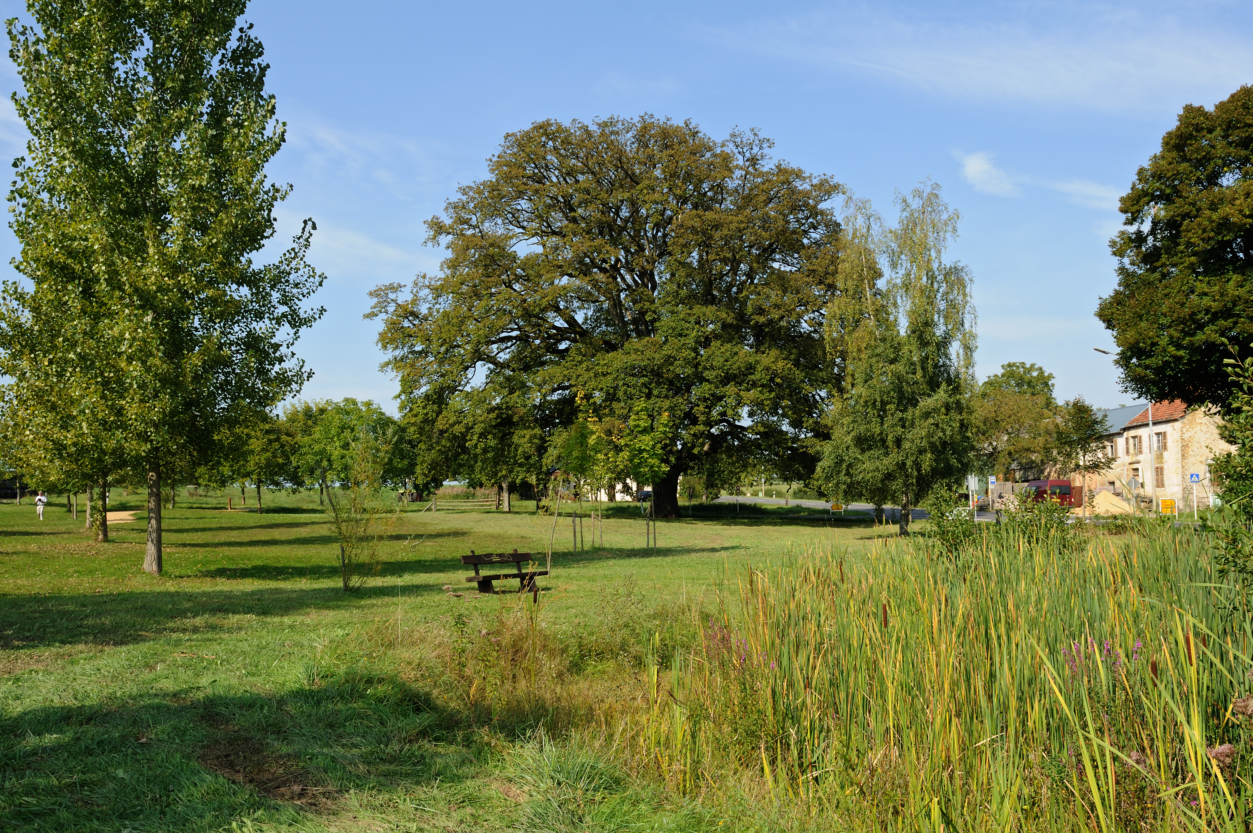 Public garden at Saeul, Luxembourg, lieudit Hëlzent. The oak is around 280 years old and classified as national monument.